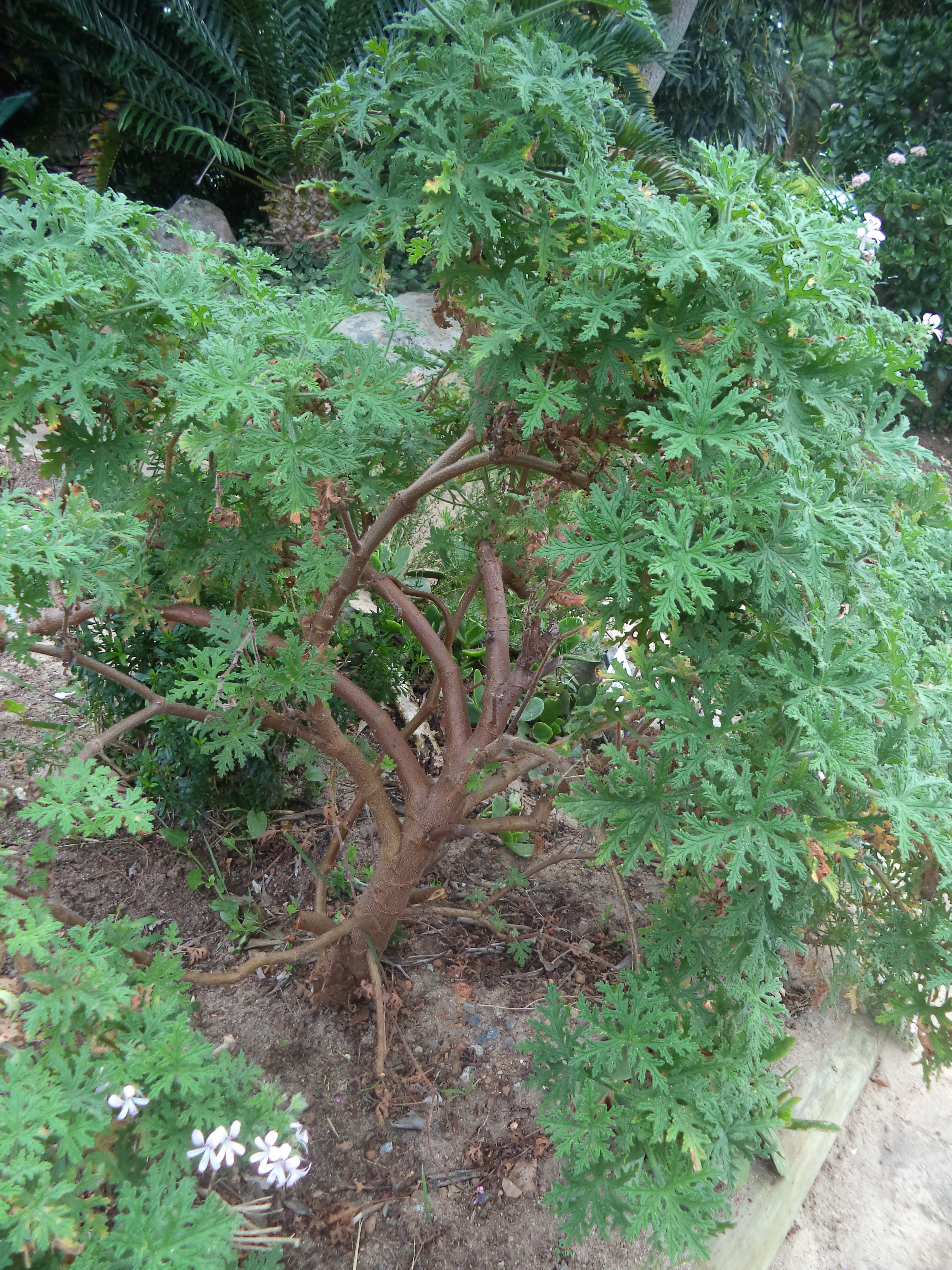 Pelargonium graveolens in the Kirstenbosch botanical garden